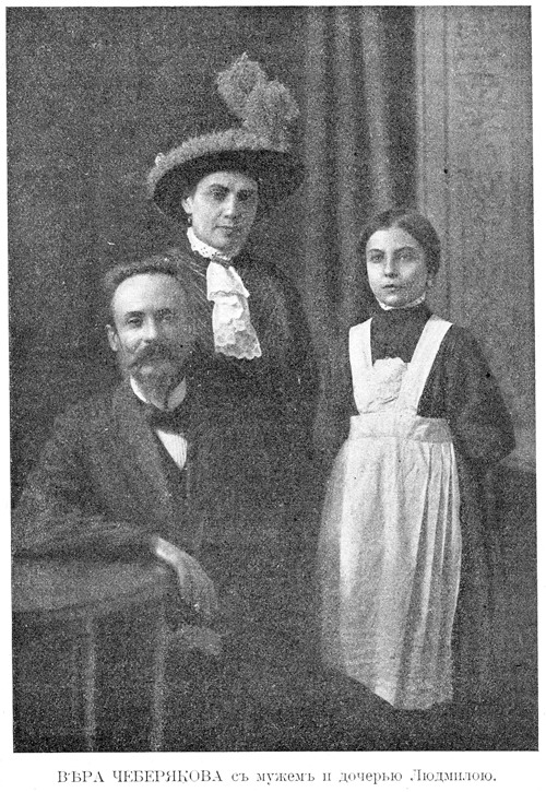 Вера Чеберяк (убийца Ющинского) с мужем Василием и дочерью Людмилой Vera Cheberyak (the murderer of Yushchinsky) with husband Vasily and daughter Lyudmila